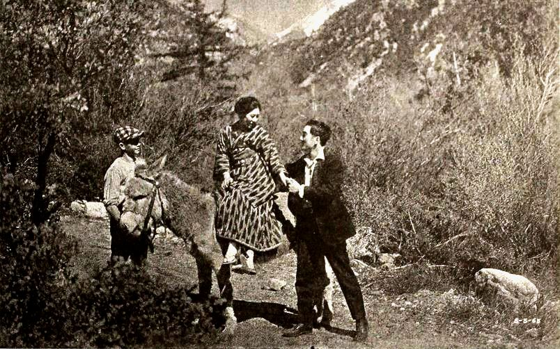 Still from the American drama film The Gray Horizon (1919) with Sessue Hayakawa and Tsuru Aoki, on page 1451 of the August 16, 1919 Motion Picture News.